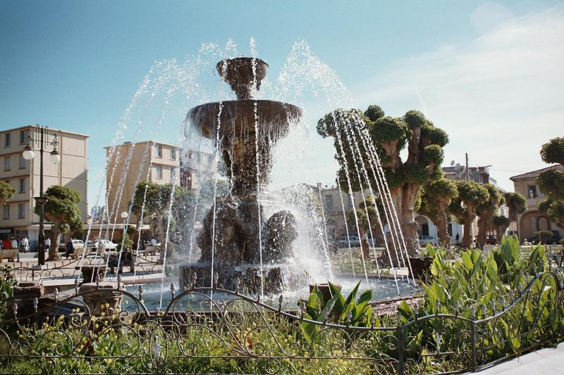 Fountain and park — in Cherchell, Tipaza Province.